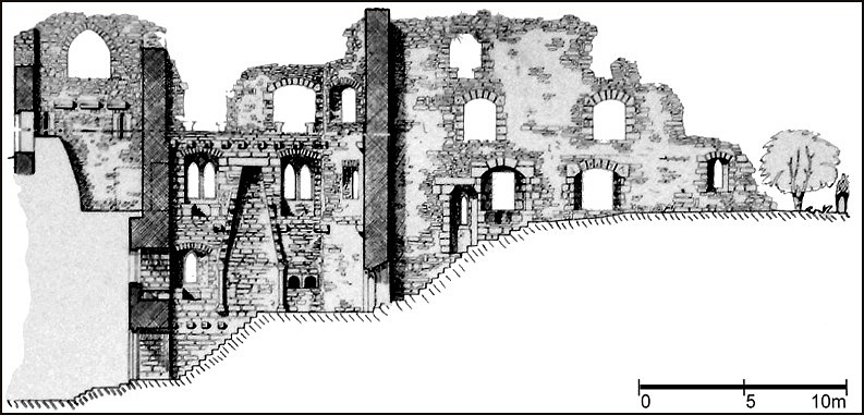 Castle Frankenstein, Palatinate (Germany). Drawing of the outside wall before reconstruction around 1930.